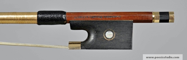 Tip